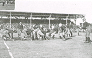 Low-resolution image of Nebraska Field as it appeared in 1921